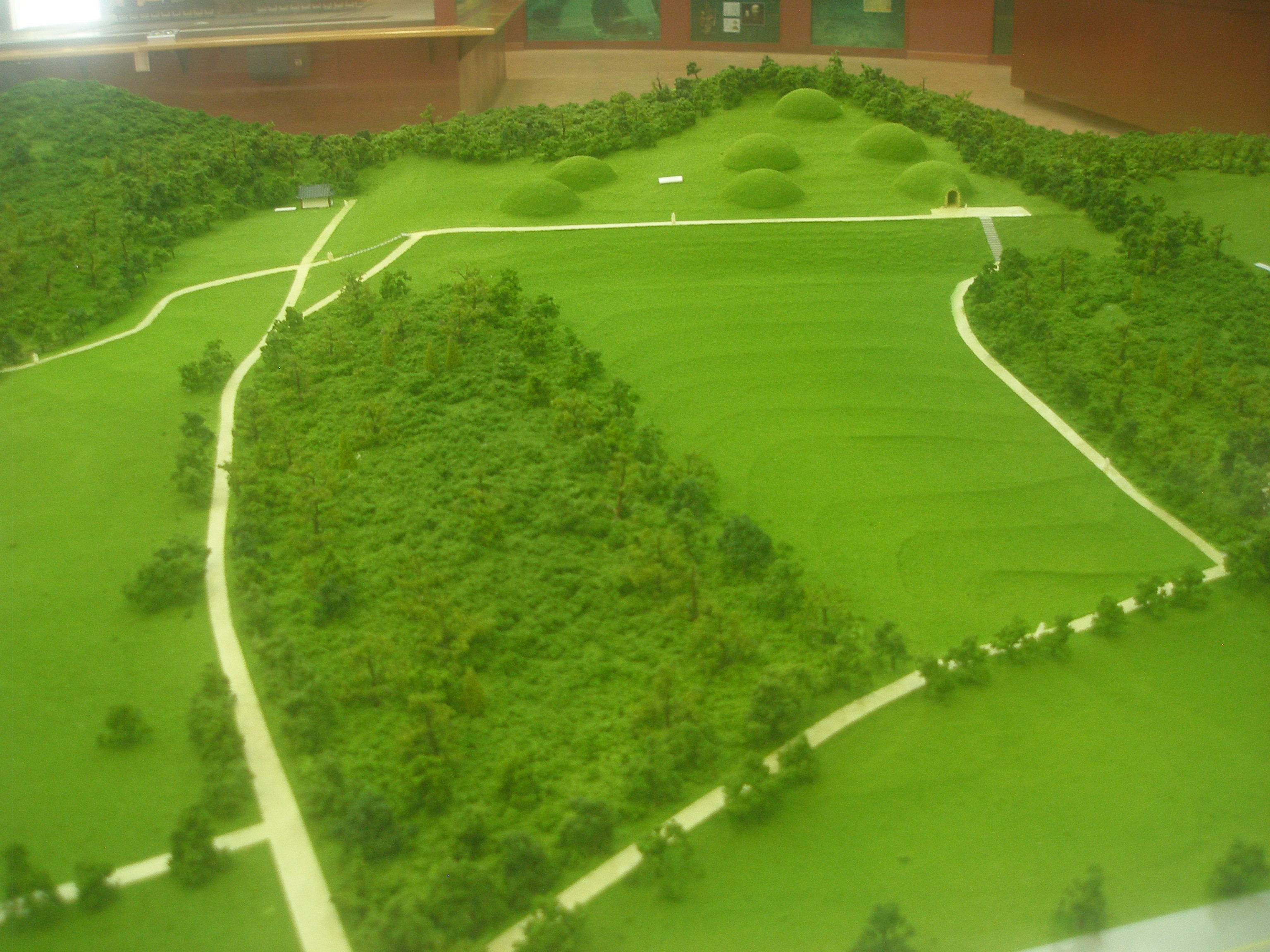 Model of tombs in Neungsan-ri, Buyeo, Korea